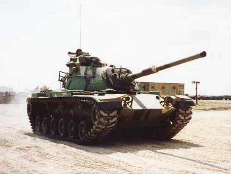 M60 Patton Tank